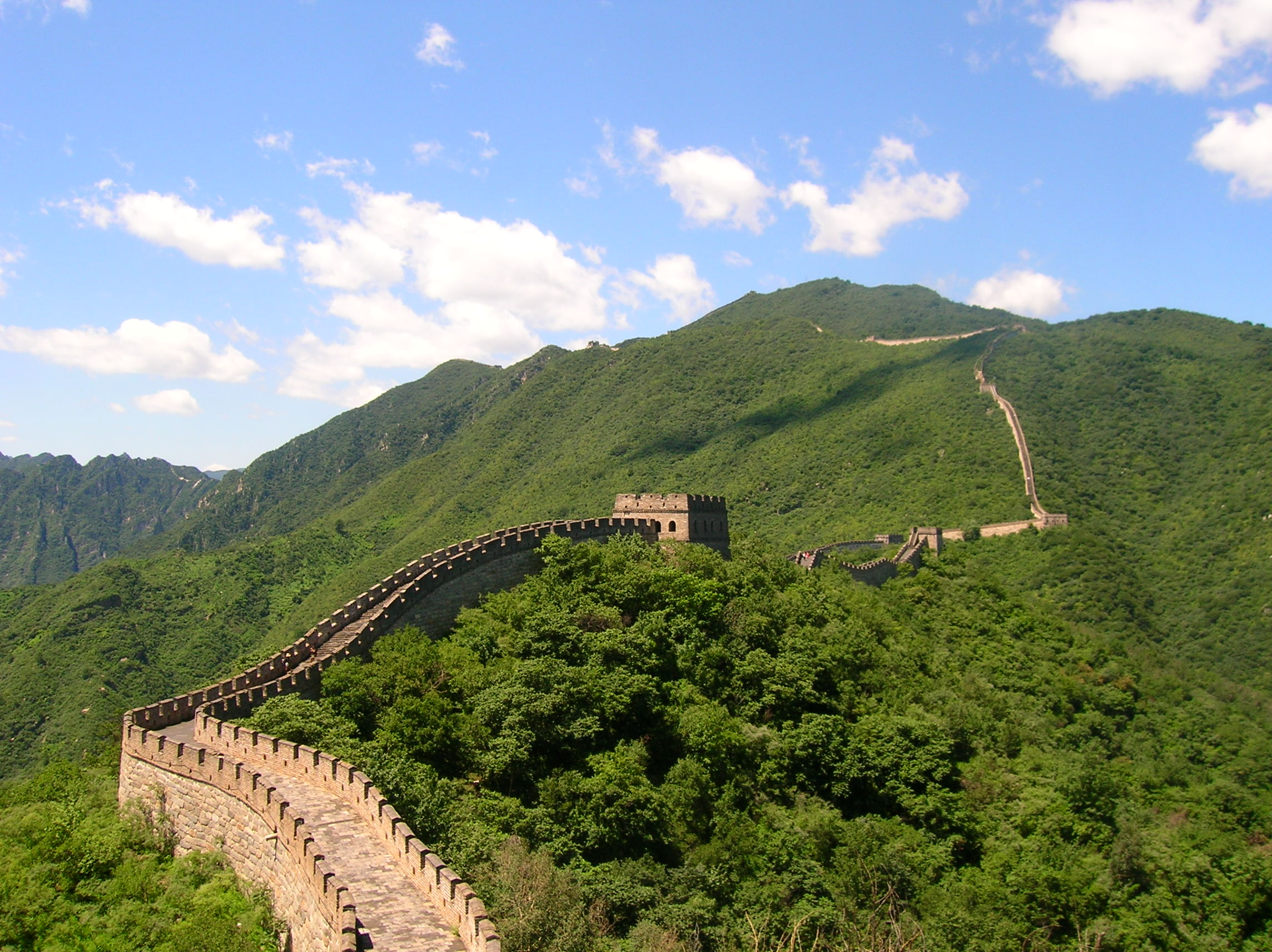 The Great Wall of China at Mutianyu, near Beijing, in July 2006.